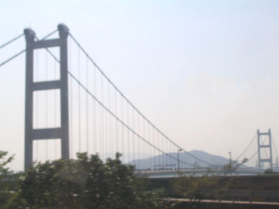 香港青馬大橋。 Category:香港圖像